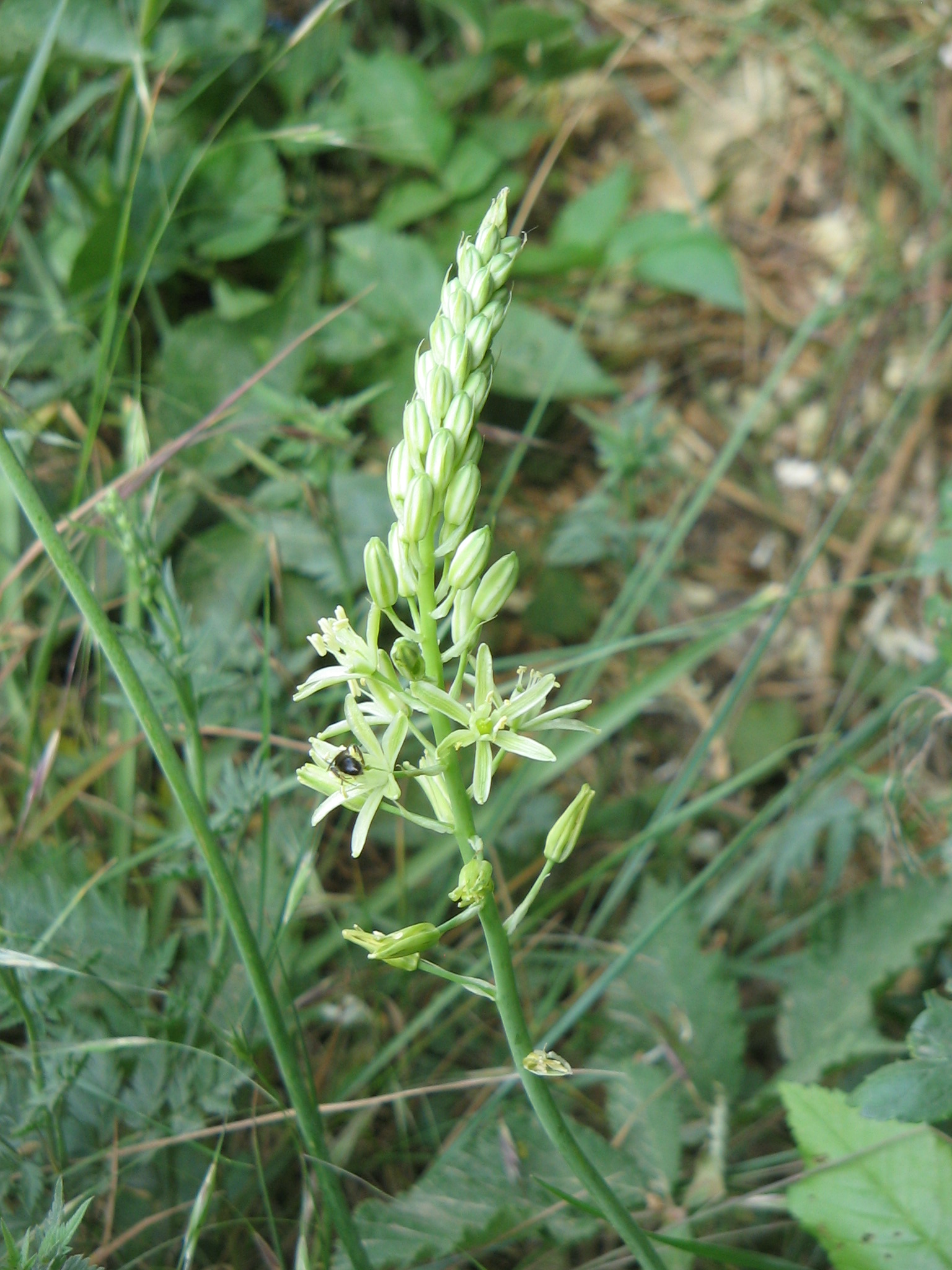 Ornithogalum pyrenaicum